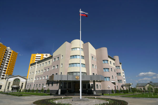 Embassy of Russia in Nur-Sultan